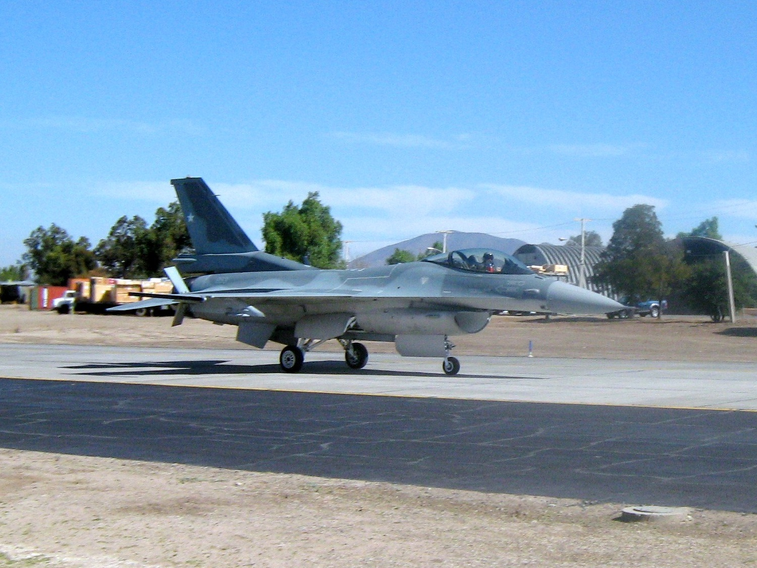 Chilean F-16